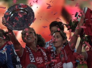 FC Twente women's squad champions 2010/11